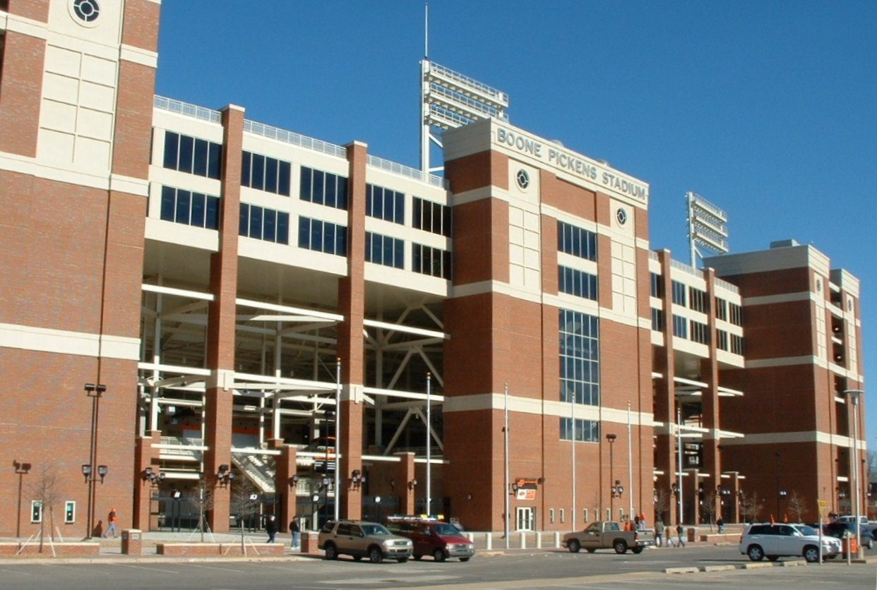 South side of Boone Pickens Stadium on campus at Oklahoma State University in Stillwater, OK. Stadium was named after T. Boone Pickens. Category:Images of Oklahoma